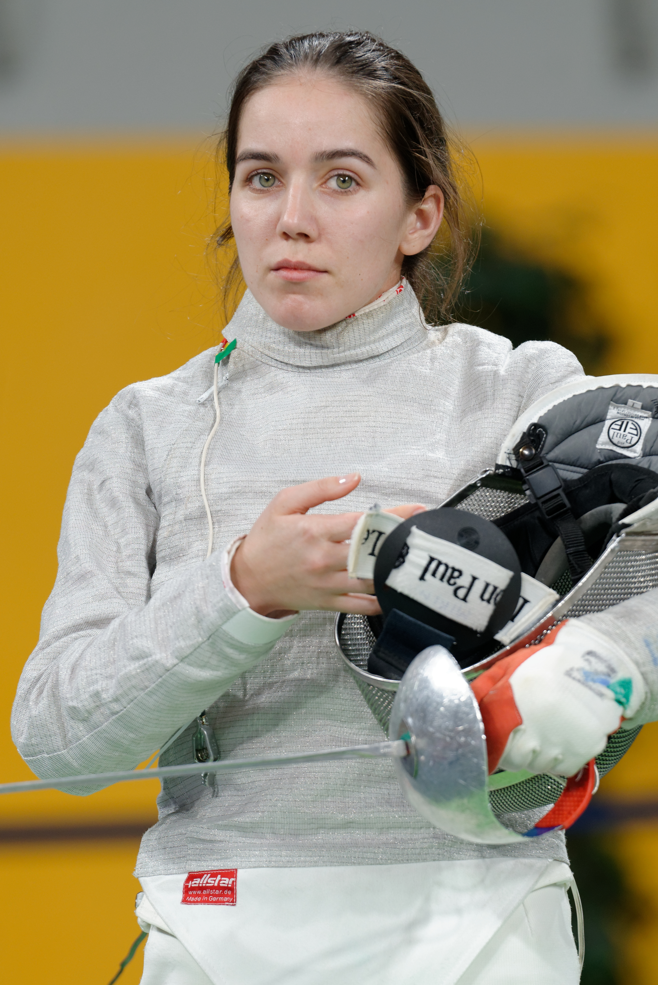 Azerbaijan's Sabina Mikina in the team event of the 2014–15 Orléans World Cup in women's sabre.